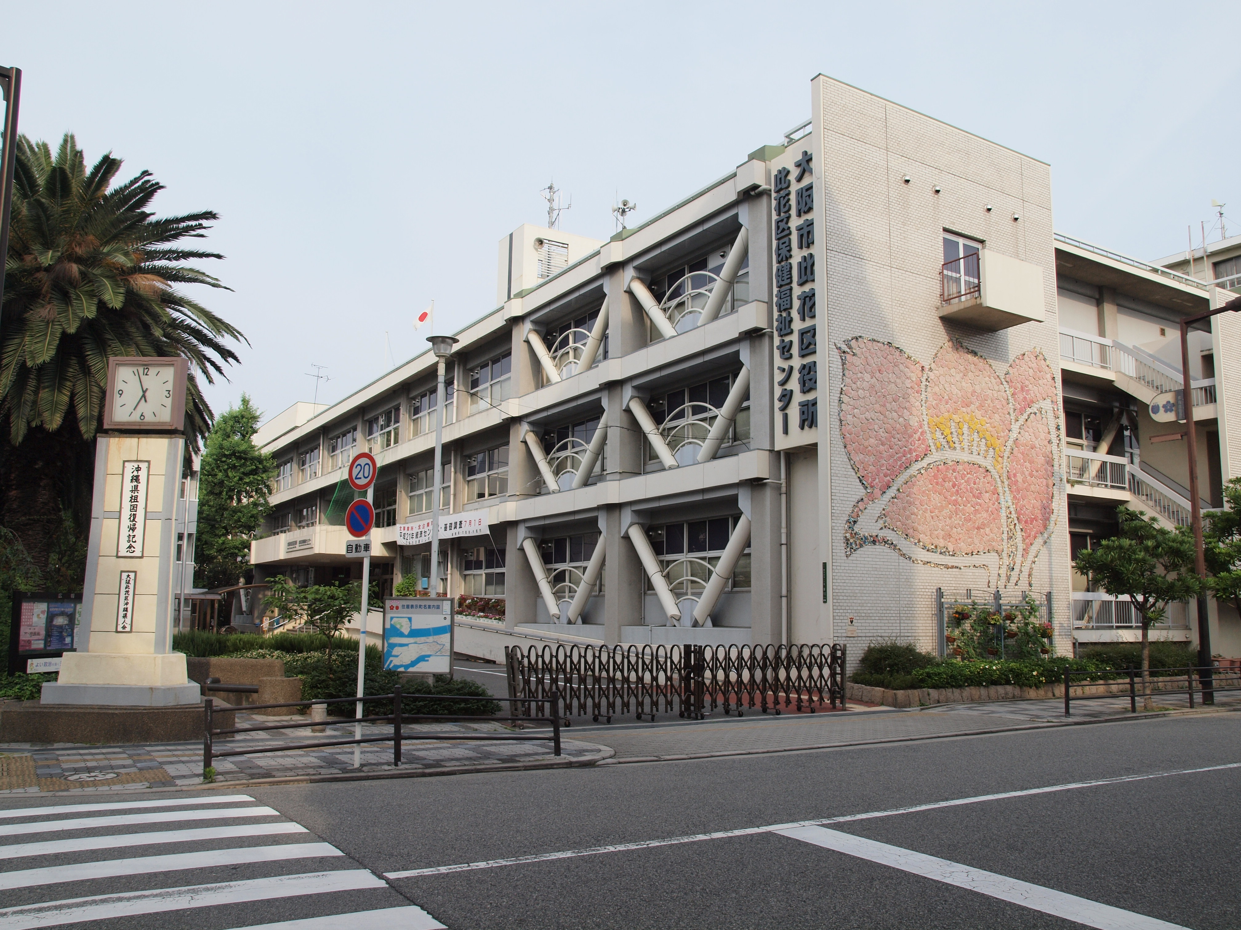 Konohana ward office, Osaka city